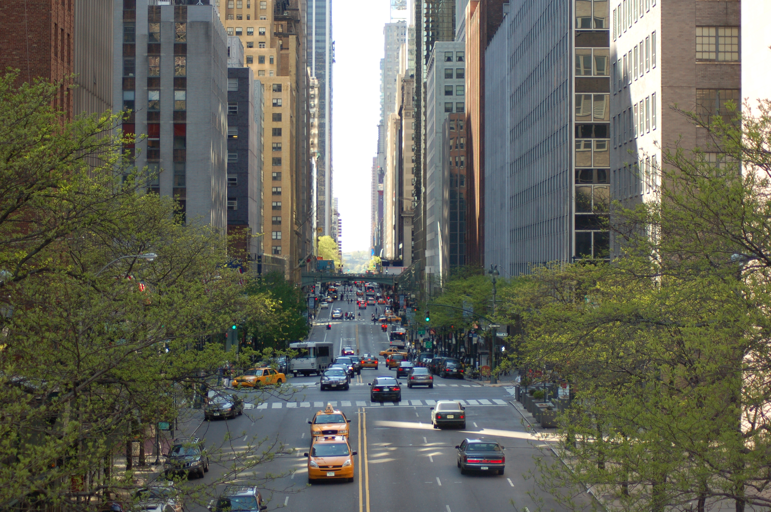 42nd Street in Tudor City